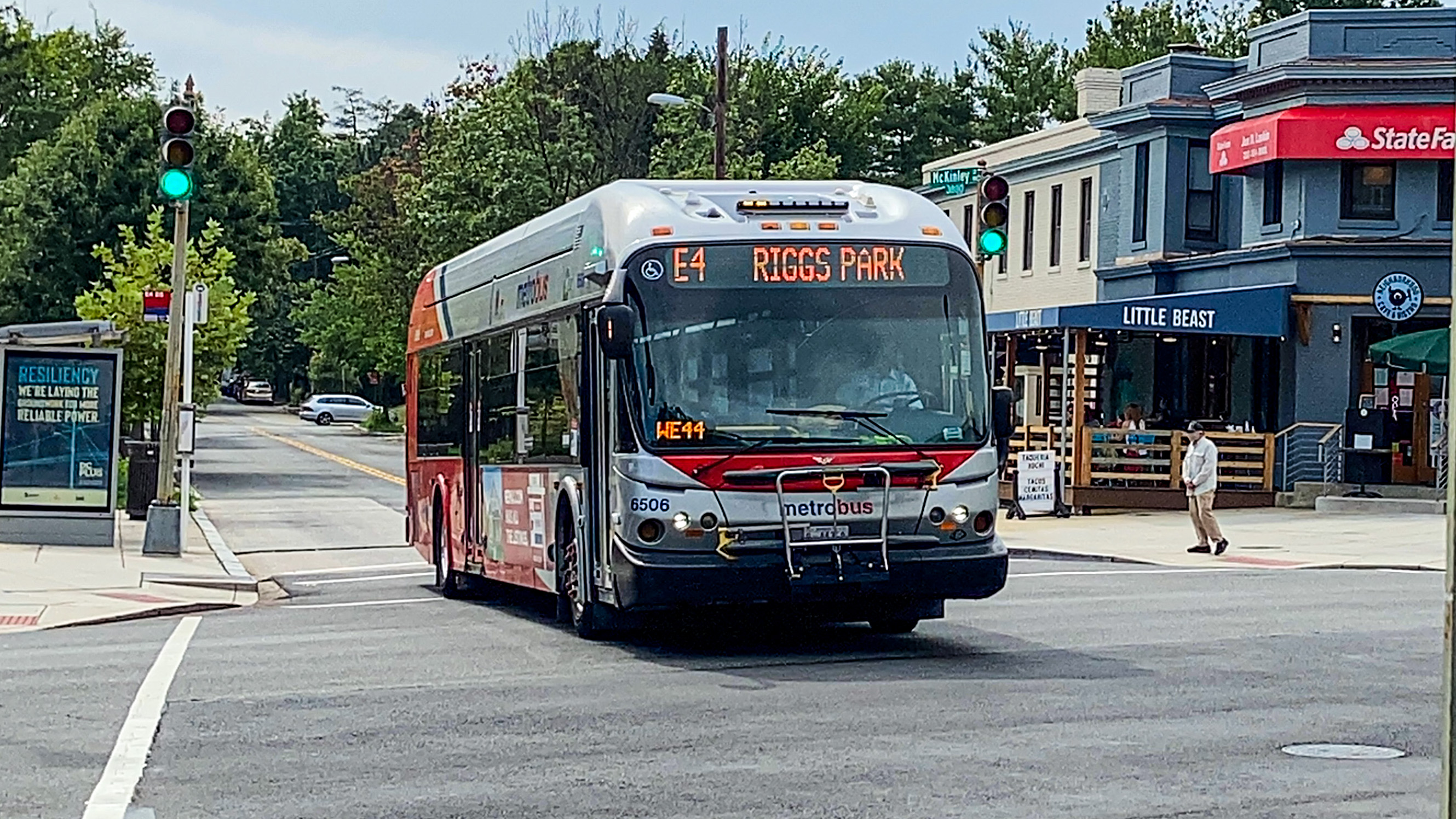 WMATA 2009 New Flyer DE40LFA 6506 on Route E4 along McKinley Street heading to Riggs Park